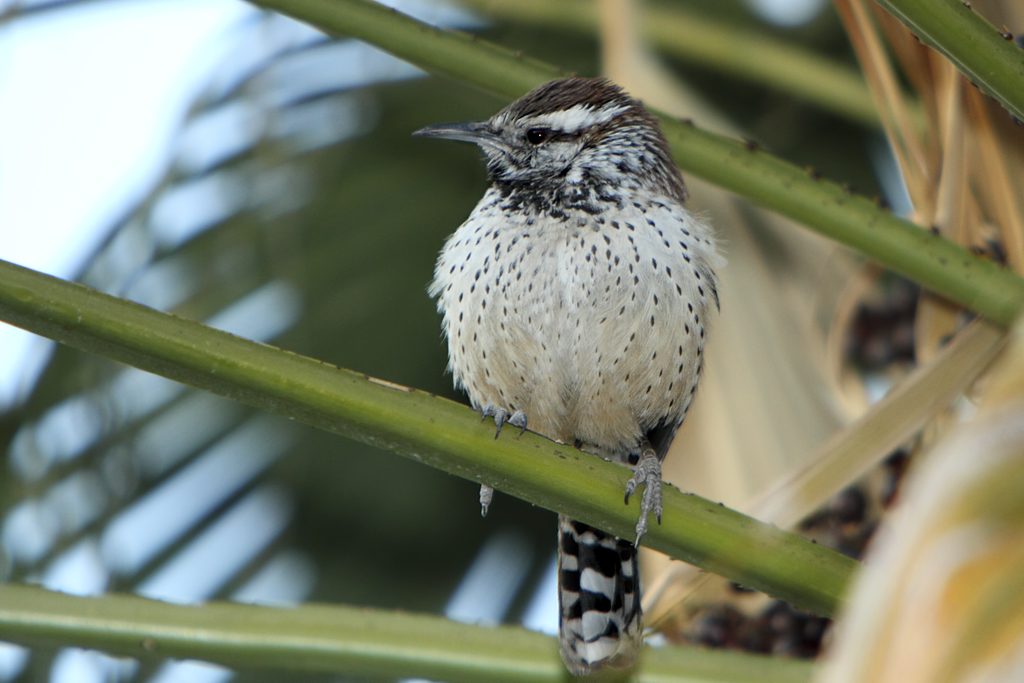 The Cactus Wren (Campylorhynchus brunneicapillus) is the largest wren in North America. Although it can be found in urban backyards, it is a true bird of the desert and can survive without freestanding water